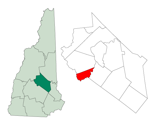 Map of a municipality in Belknap County, New Hampshire